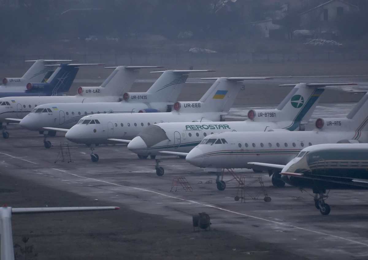 A lineup of Yakovlev Yak-40 at Zhulyany Airport in Kiev